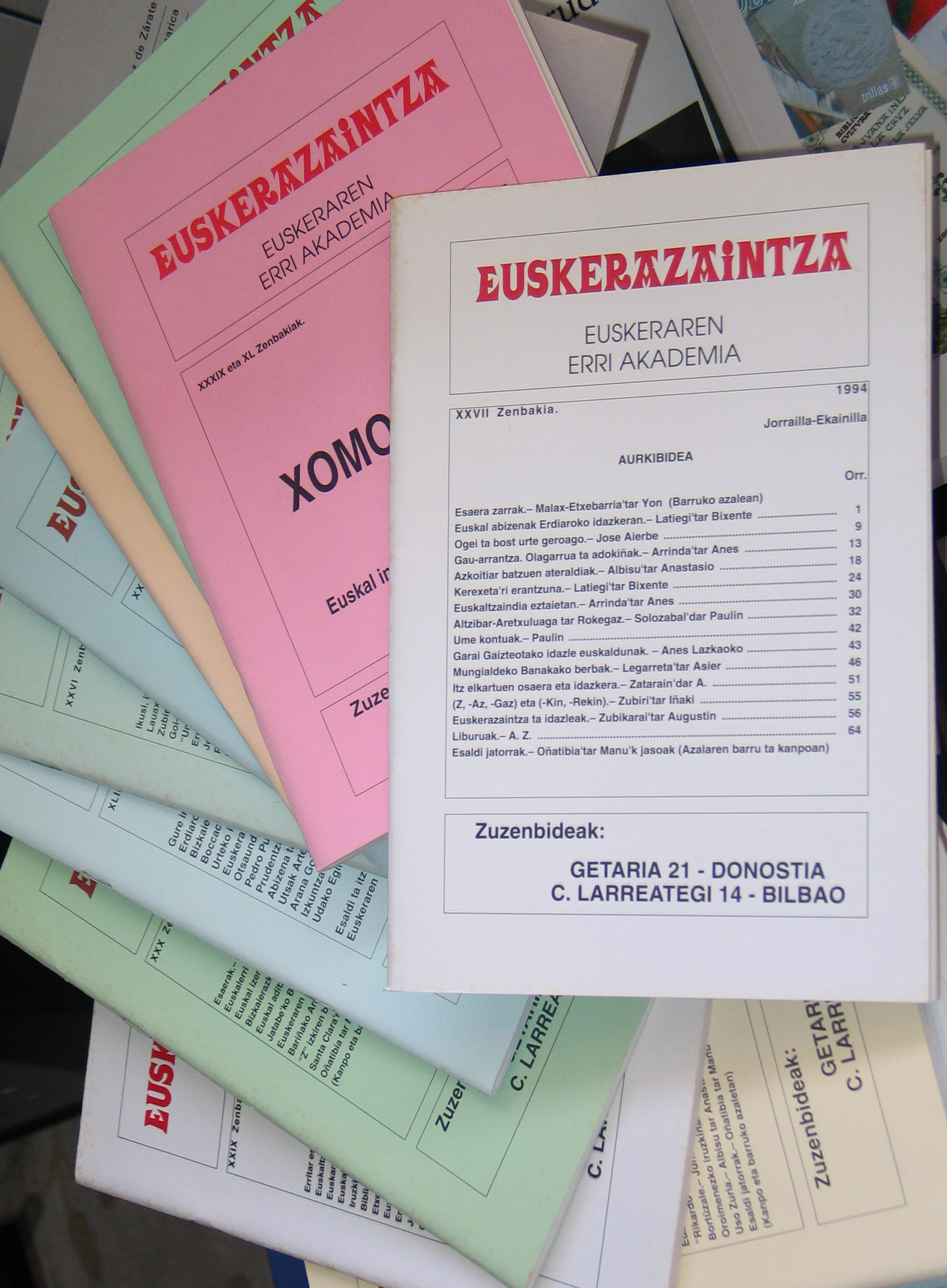 Euskerazaintza basque magazine